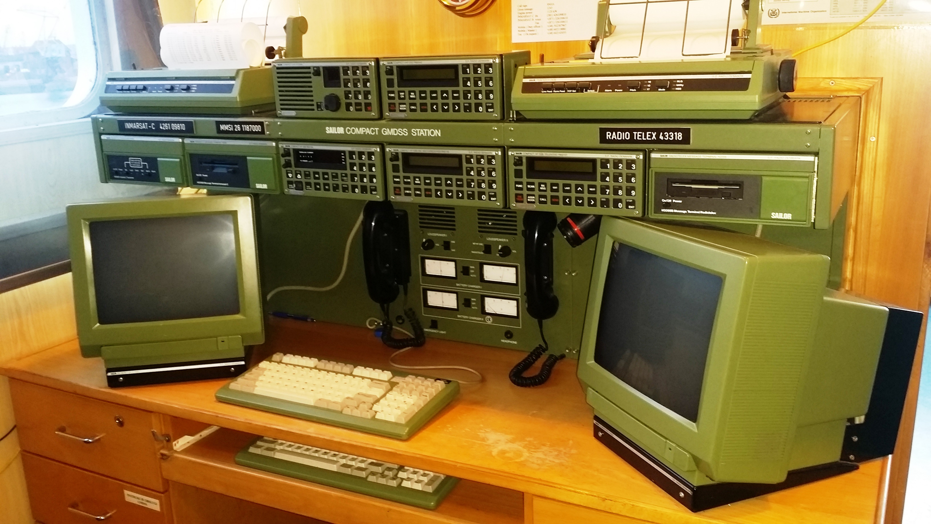 old Sailor 2000 GMDSS console installed on MS Nawigator XXI